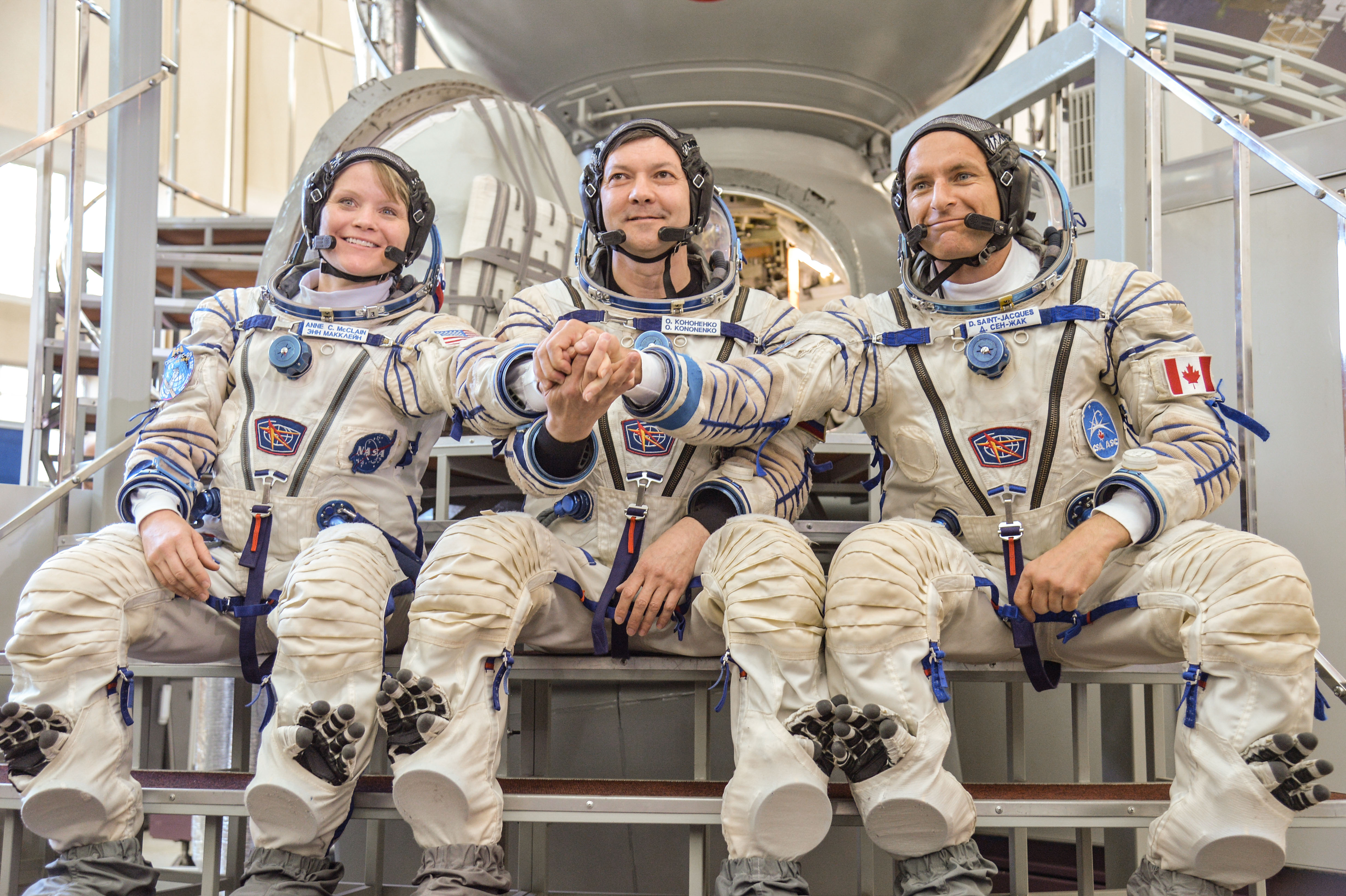 At the Gagarin Cosmonaut Training Center in Star City, Russia, Expedition 56 backup crew members Anne McClain of NASA (left), Oleg Kononenko of Roscosmos (center) and David Saint-Jacques of the Canadian Space Agency (right) pose for pictures May 10 following their final Soyuz spacecraft qualification exams. They are the backups to the prime crew of Serena Auñón-Chancellor of NASA, Sergey Prokopyev of Roscosmos and Alexander Gerst of the European Space Agency, who will launch June 6 from the Baikonur Cosmodrome in Kazakhstan on the Soyuz MS-09 spacecraft for a six-month mission on the International Space Station.